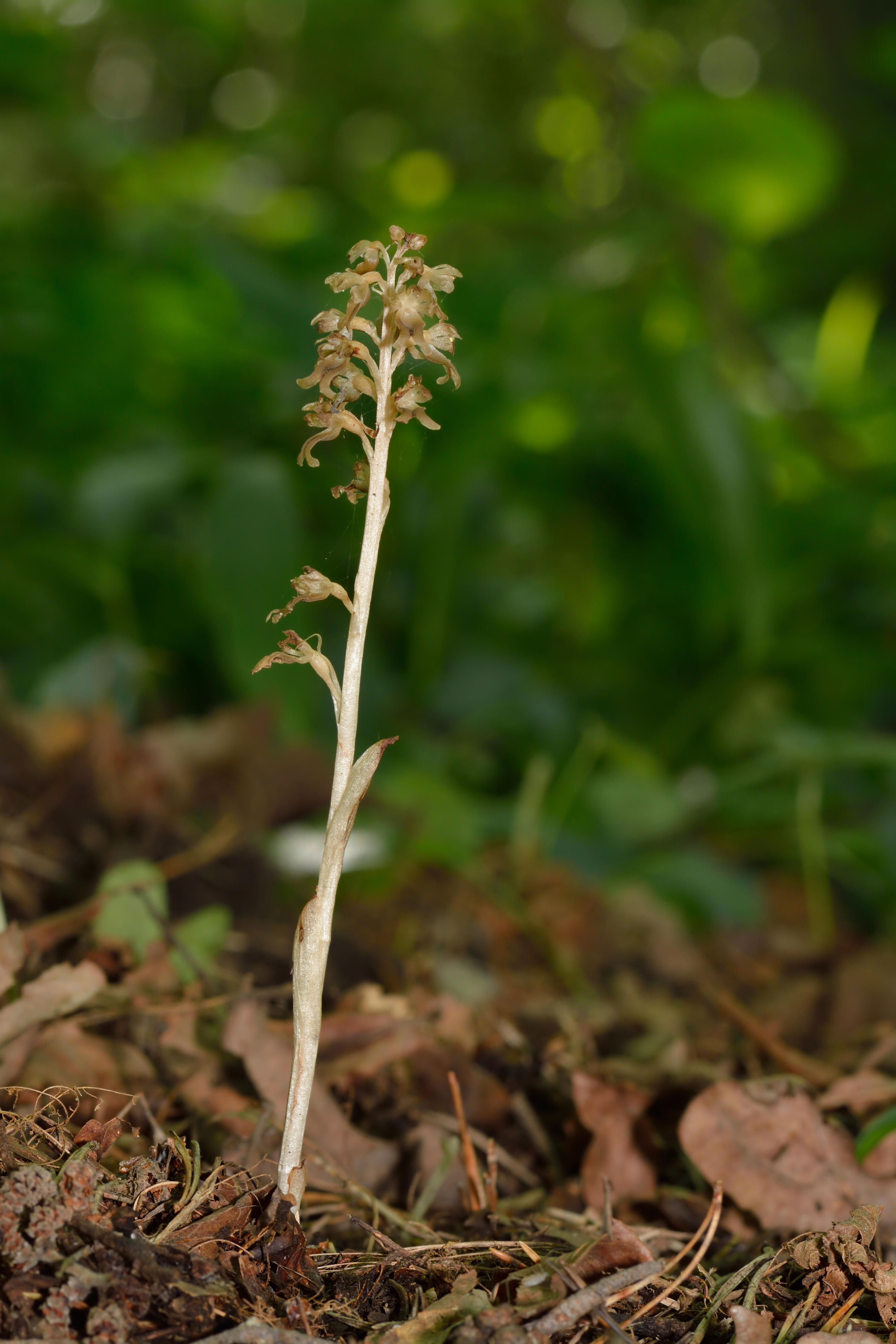 Bird's-nest Orchid (Neottia nidus-avis). Alvar forest, Northwestern Estonia.